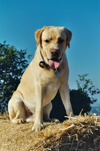 A yellow Labrador Retrievers named Jespah.